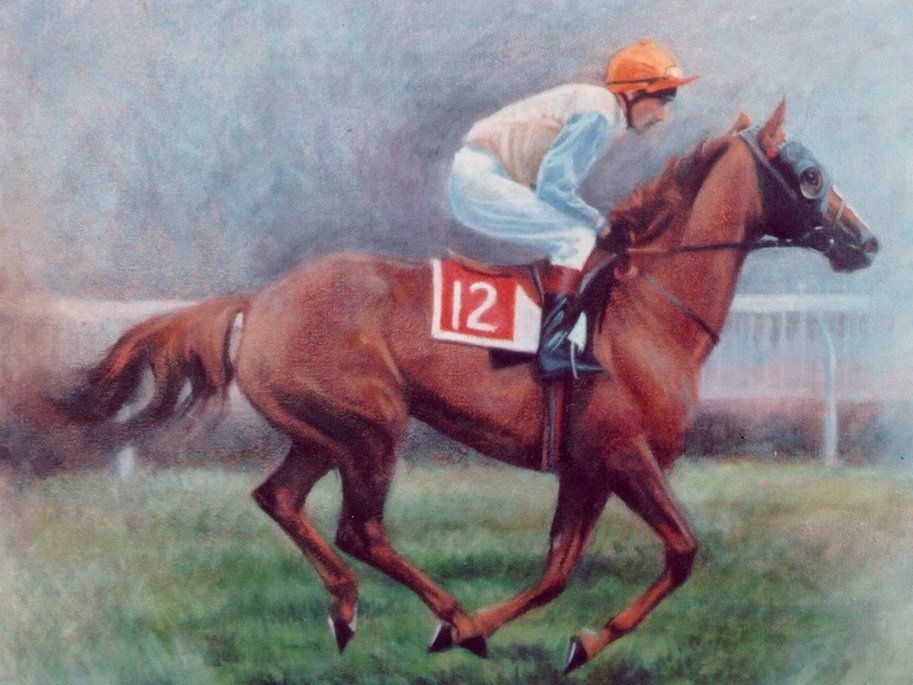 Michael Allingham riding at Newmarket